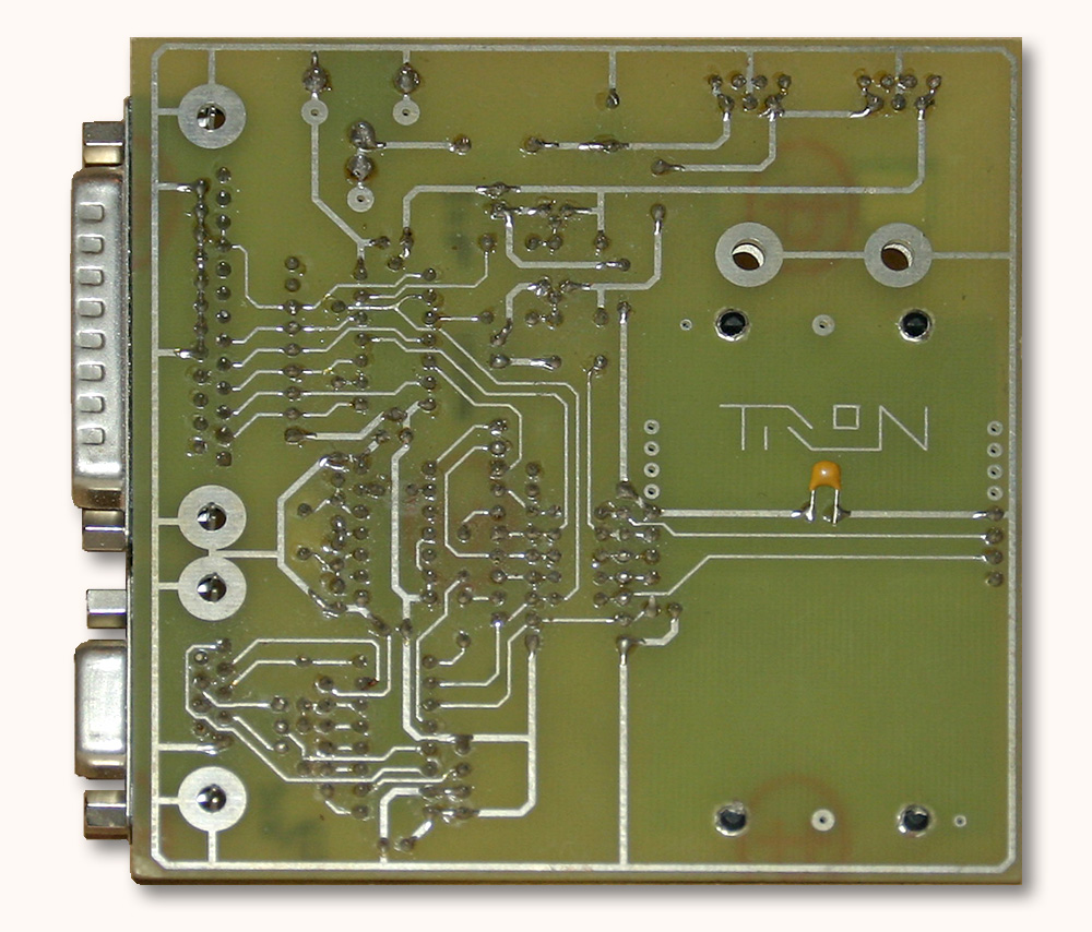 description: Cardreader especially for reading/writing GSM-cards designed by Hacker Tron in 1998 (backside) author: Elke Wetzig (User:Elya) date: 2006-02-17